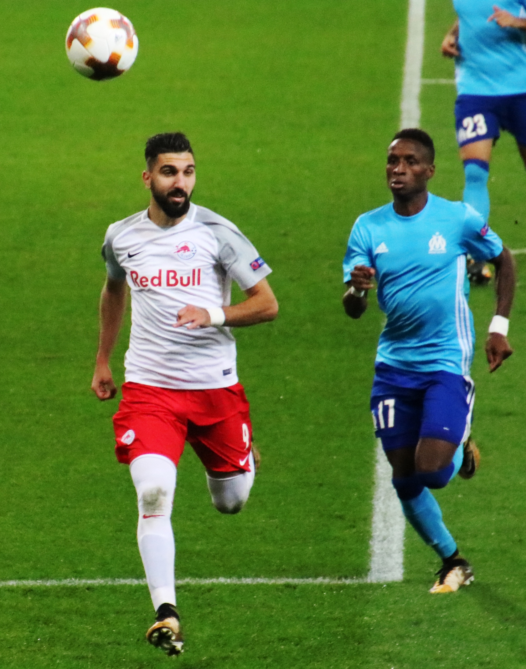 UEFA Euroleage group stage 2nd round